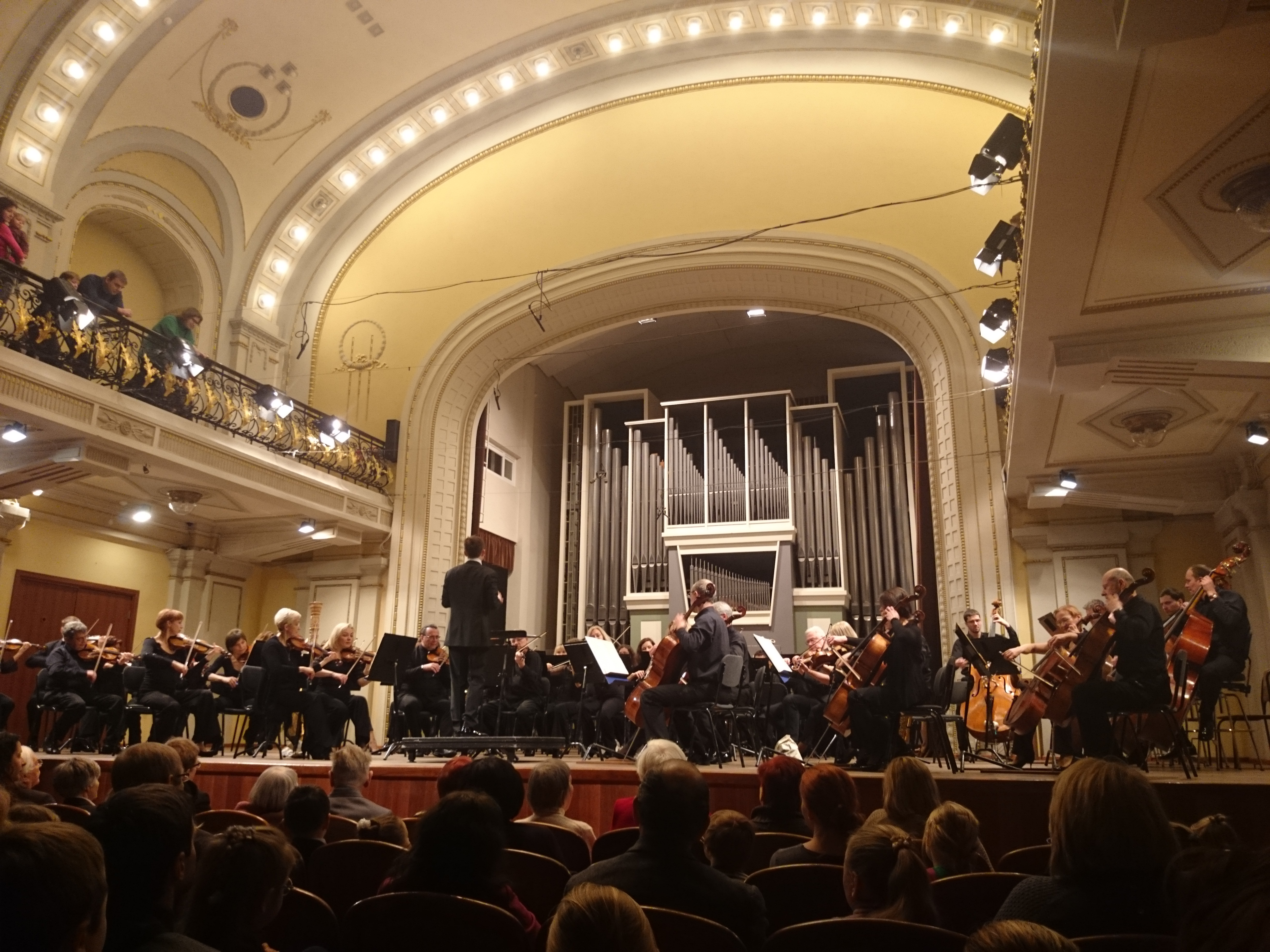 Lithuanian National Philharmony